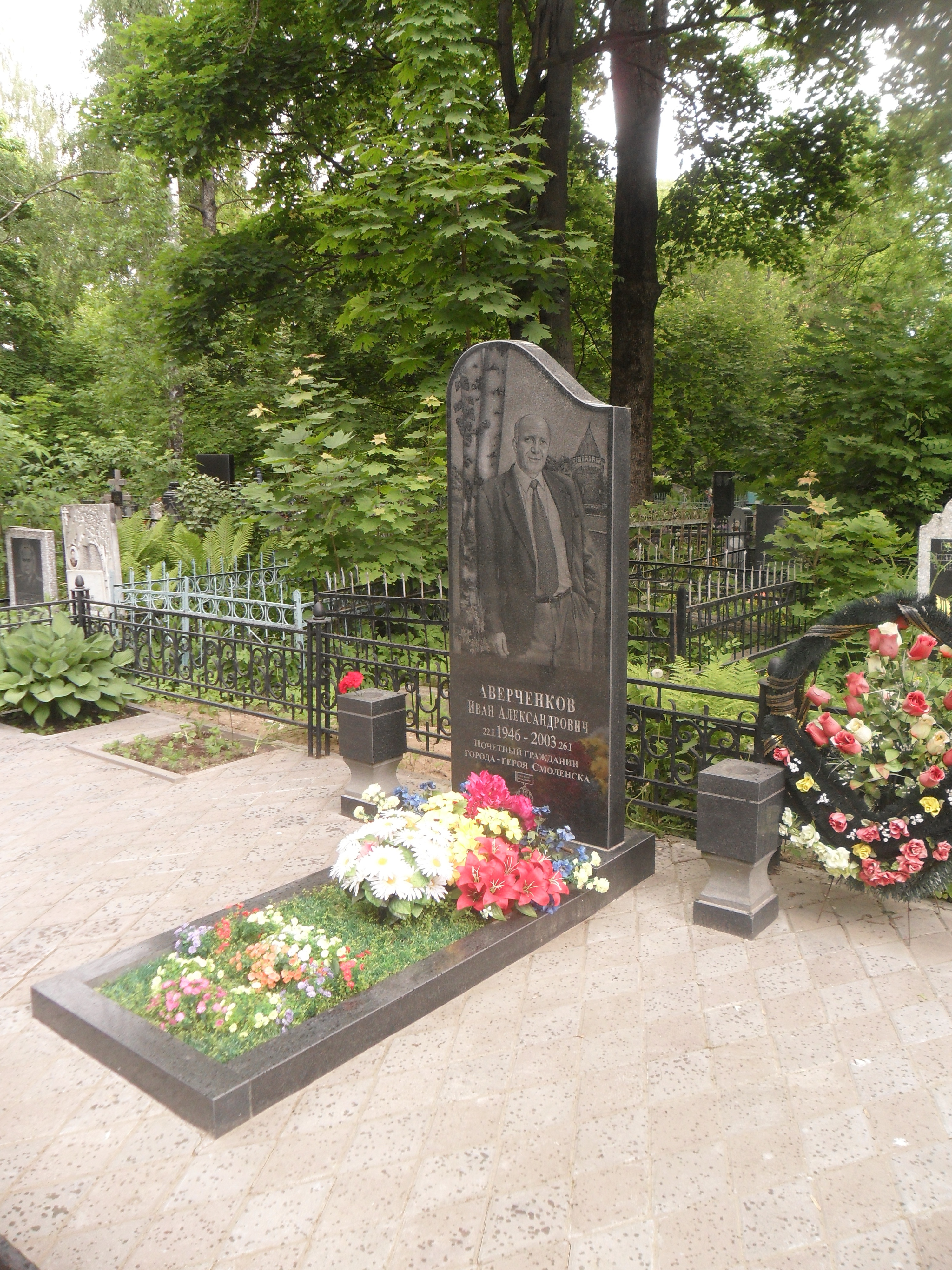 Tomb of honorary citizen of Smolensk, Smolensk Oblast administration head Ivan Averchenkov at Fraternal Cemetery in Smolensk.